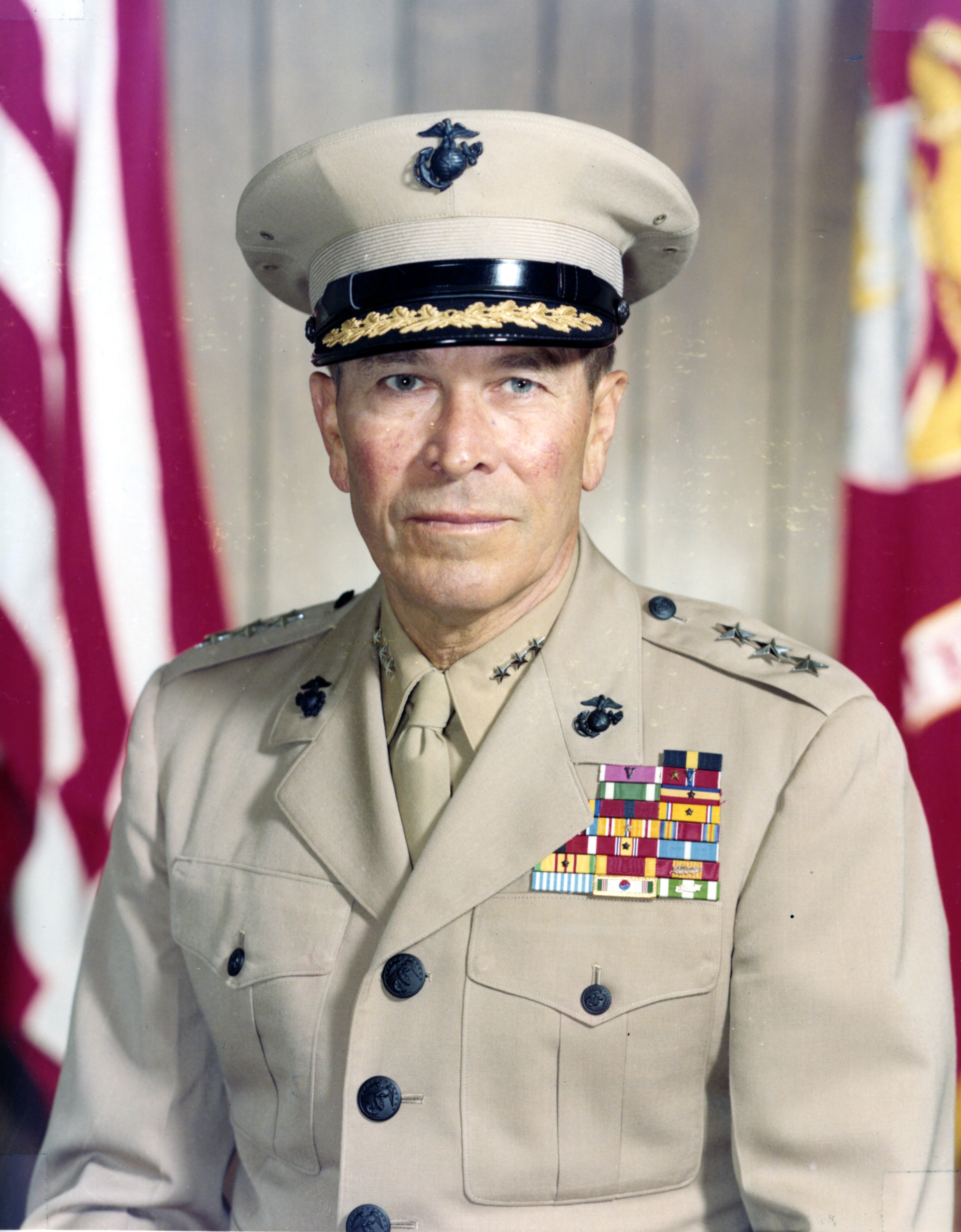 Lewis Jefferson Fields (October 1, 1909 - March 5, 1988) was an highly decorated officer of the United States Marine Corps with the rank of Lieutenant General. He is most noted for his service with 1st Marine Division during Vietnam War and later as Commanding General of United States Marine Corps Development and Education Command.